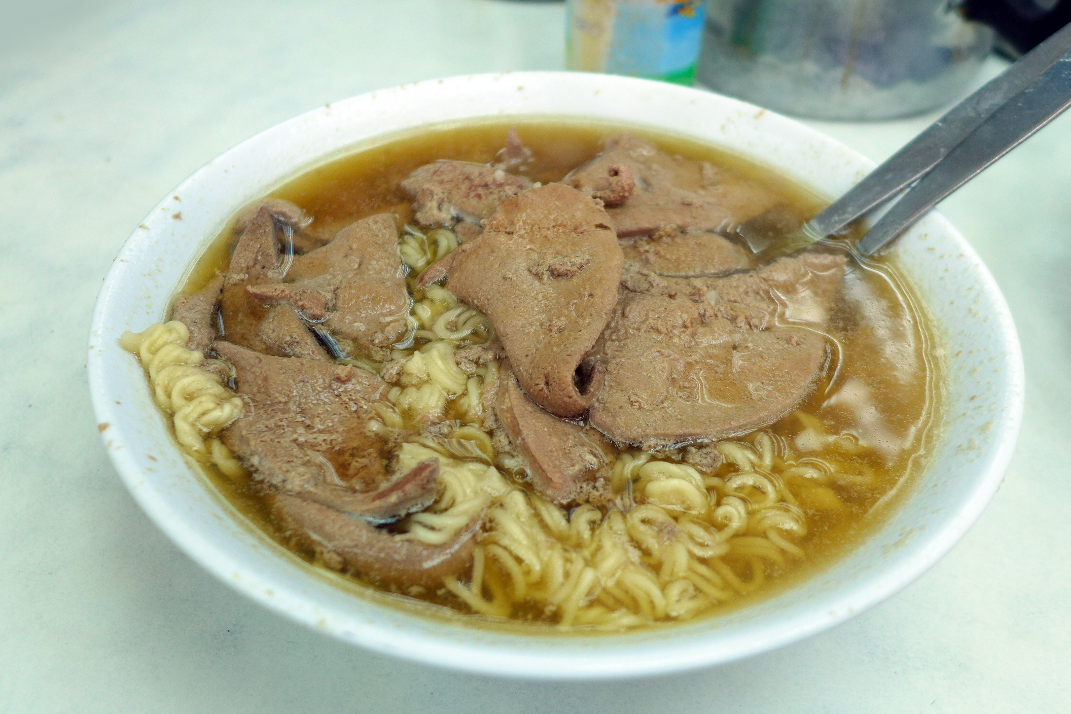 Wai Kee Noodle Cafe Noodles